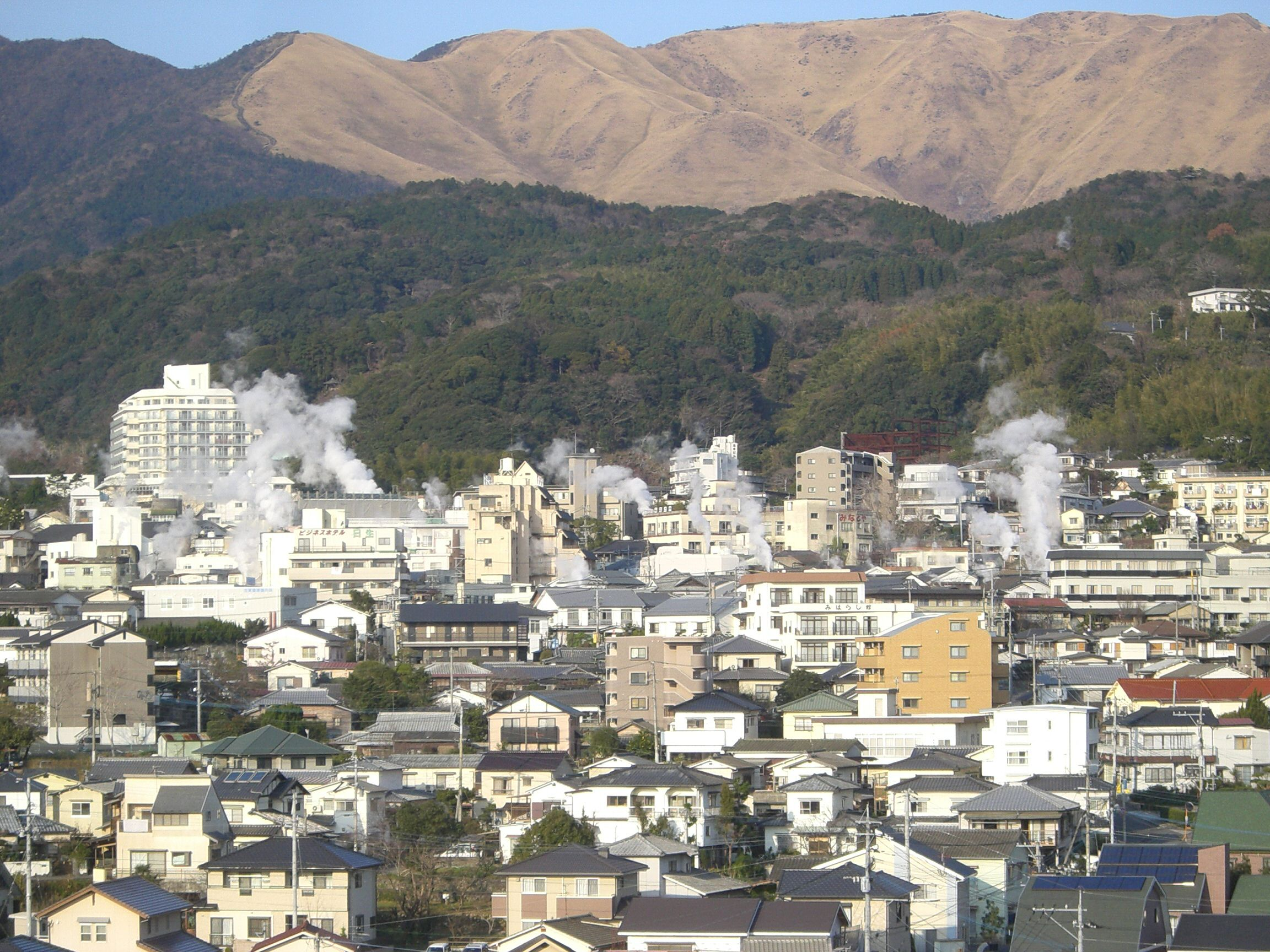 鉄輪温泉遠景; a view of Kan-nawa Onsen, Beppu, Oita, Japan